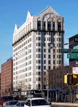 Photo of the Hotel Theresa, Adam Clayton Powell Boulevard and 125th Street in Harlem, New York. Photo by Stern, 2006. The building now operates as the "Theresa Towers" office building.